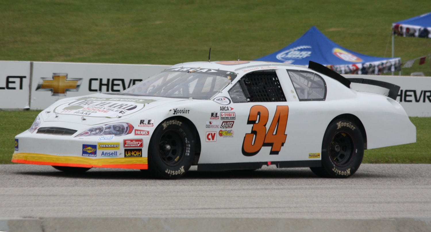 The ARCA Racing Series car of Darrell Basham at the 2013 Scott 160 race at Road America.